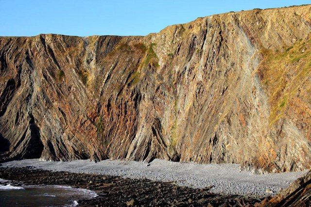 Coloured strata on the cliffs on Warren Beach